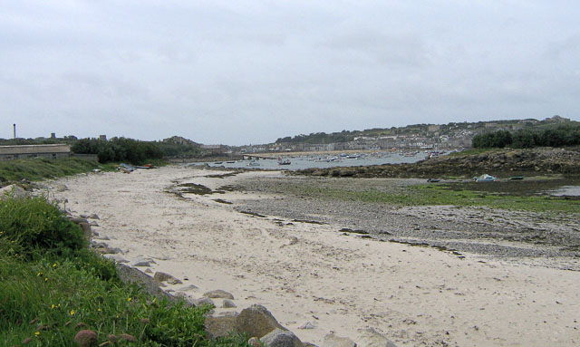 Porthloo beach, St Mary's, Scilly Porthloo has a nice sandy upper beach, but the middle shore is mainly occupied by shingle, rocks and weed. Not good for swimming, but from the seats nearby, you can watch shorebirds foraging amongst the rocks and weed. In the middle distance is the launching ramp for the St Mary's lifeboat at Carn Thomas. Beyond and to the right is St Mary's Pool, with many boats moored. The island to the middle right is Newford Island. The land to the upper right is the Garrison.